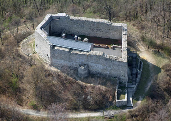 Márévár, Castle, Hungary, aerial photography